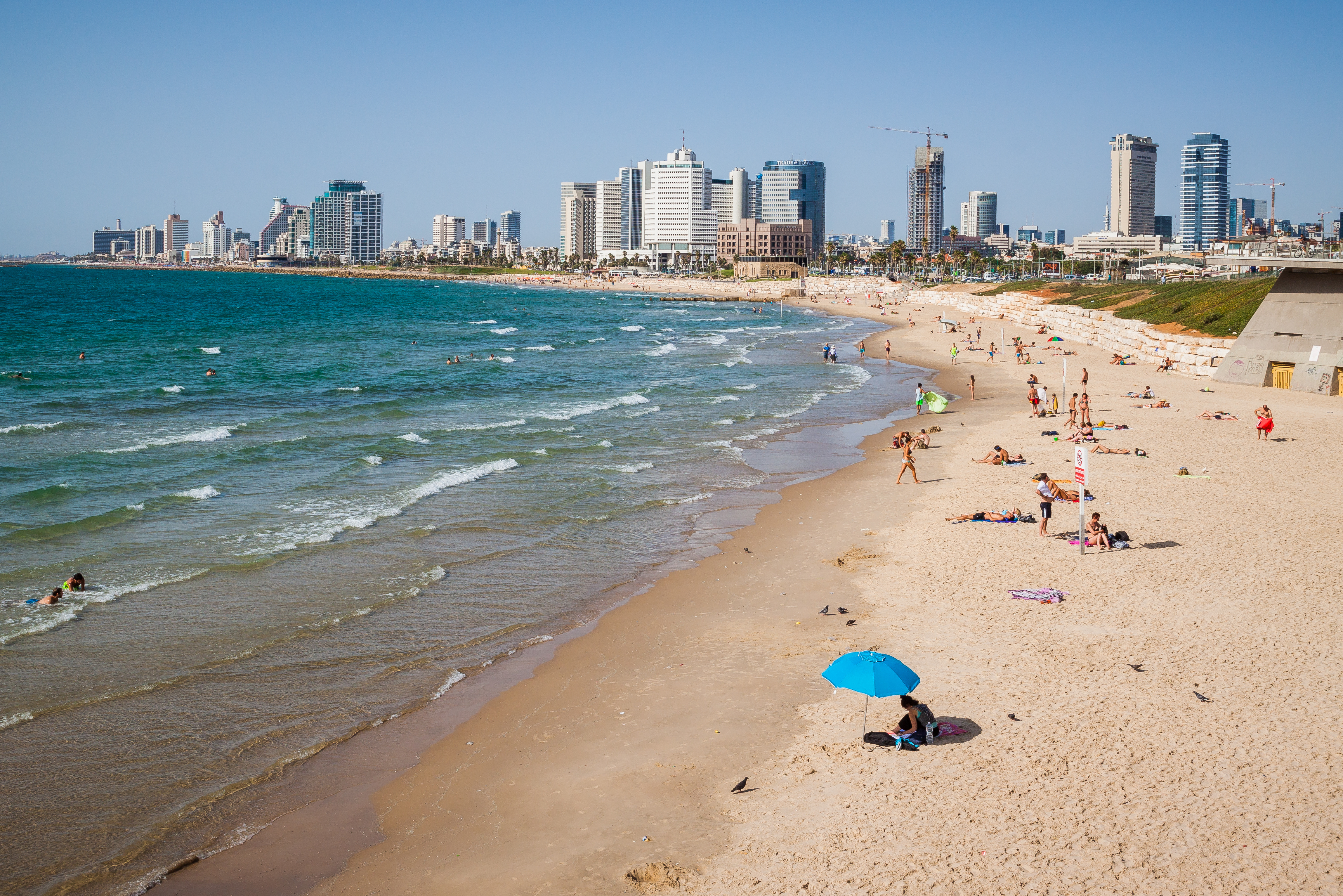 View of the coastline from Old Jaffa, Tel Aviv.